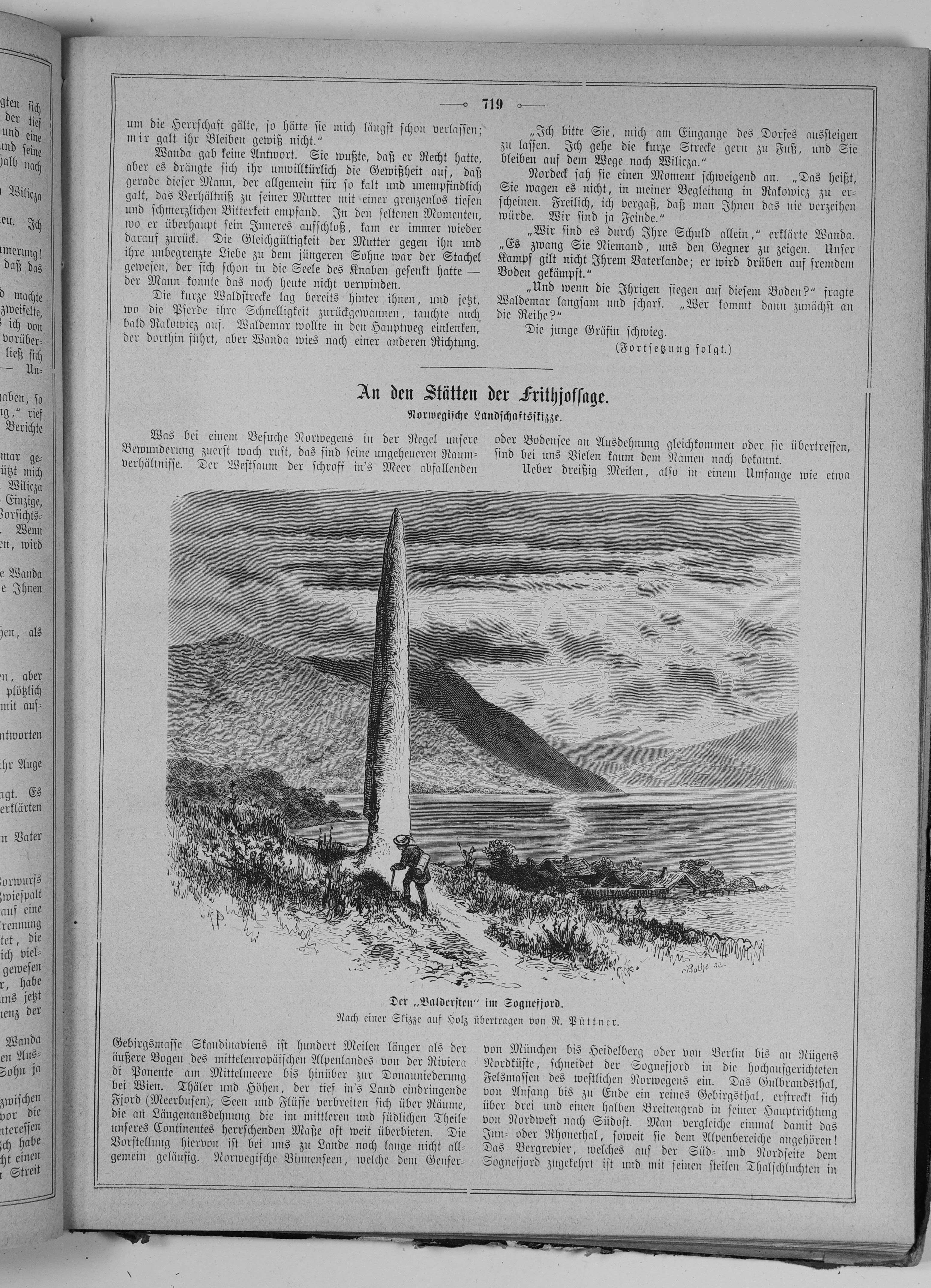 no caption